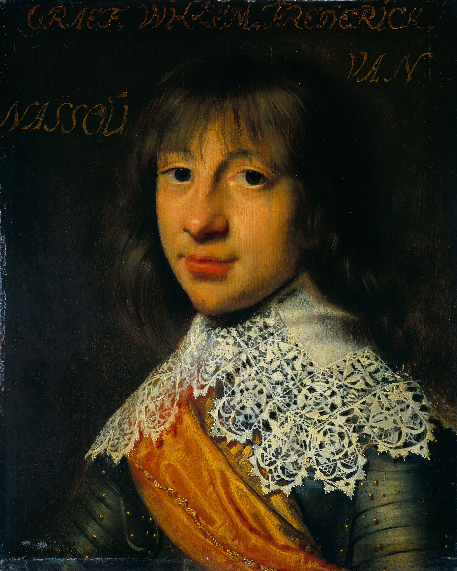 Part of the Leeuwarden series, a series of portraits of military officials from the Eighty Years' War as well as members of the House of Orange-Nassau, first documented in 1633 in the Stadhouderlijk Hof (Stadholder's Court) in Leeuwarden (see Object history).